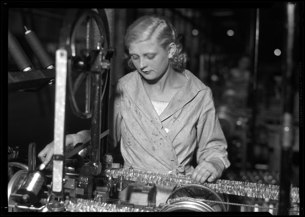 Accession Number: 1985:0293:0067 Maker: Lewis W. Hine (1874-1940) Title: Woman with Machine (tinsel) Date: 1920 Medium: negative, gelatin on nitrocellulose sheet film Dimensions: George Eastman House Collection General – information about the George Eastman House Photography Collection is available at For information on obtaining reproductions go to